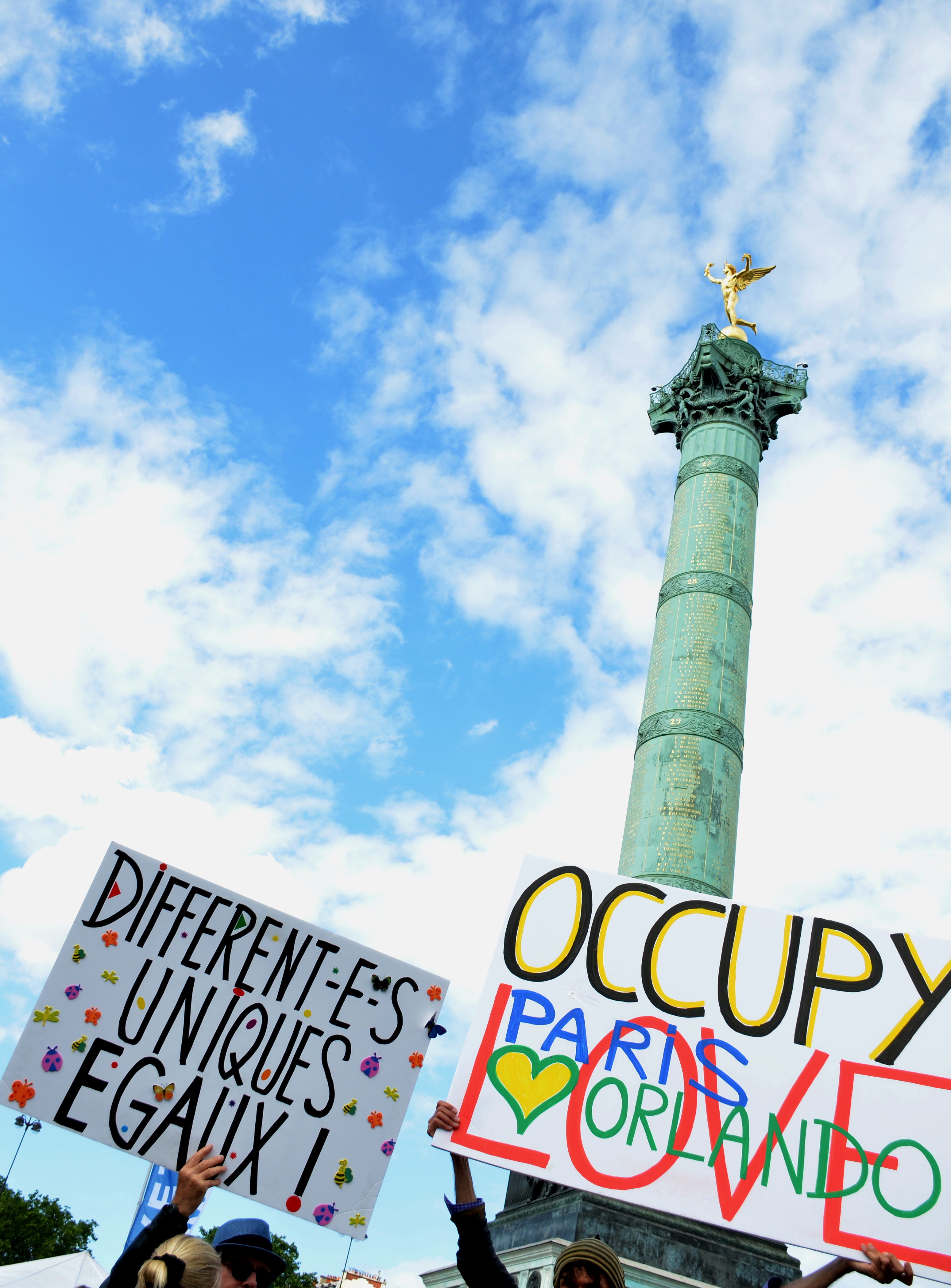 Photograph taken during the Marche des Fiertés LGBT de Paris ( Paris Gay Pride ), the 2d of July 2016.